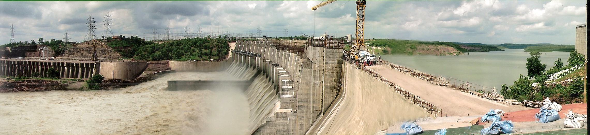 View of Indira Sagar dam - Partially completed